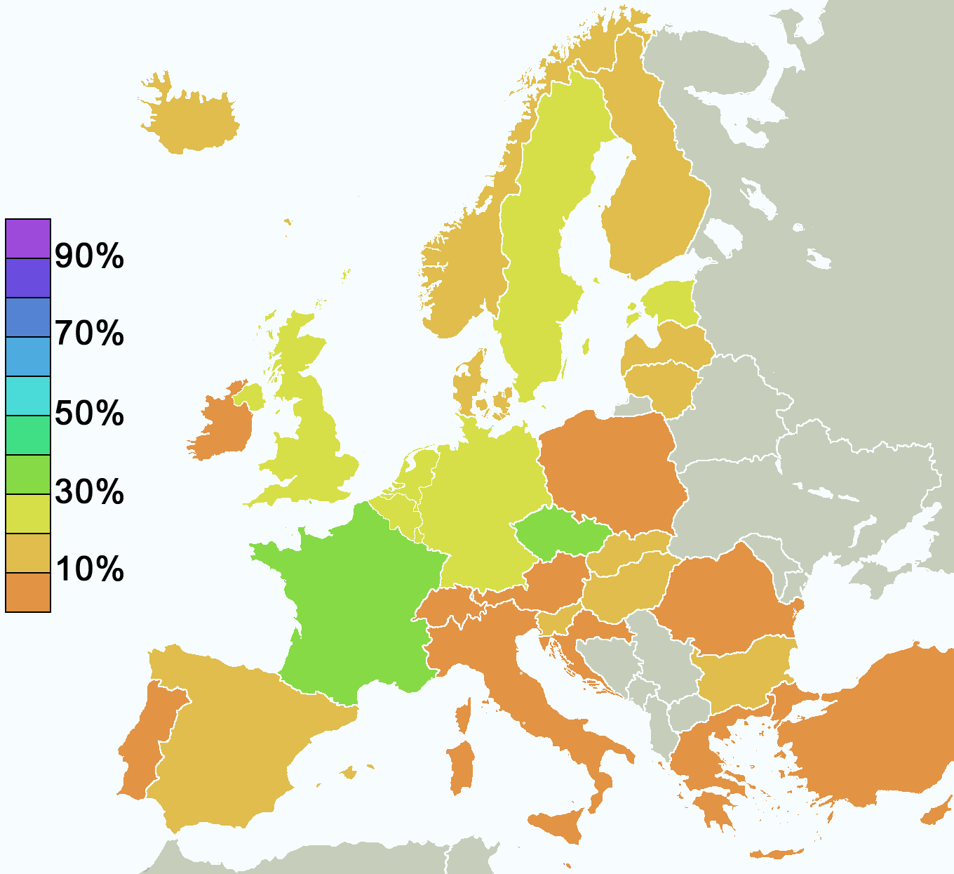 Eurobarometer Poll 2005 Percentage of those who agreed to the statement that "there isn't any sort of God, spirit, or life force".